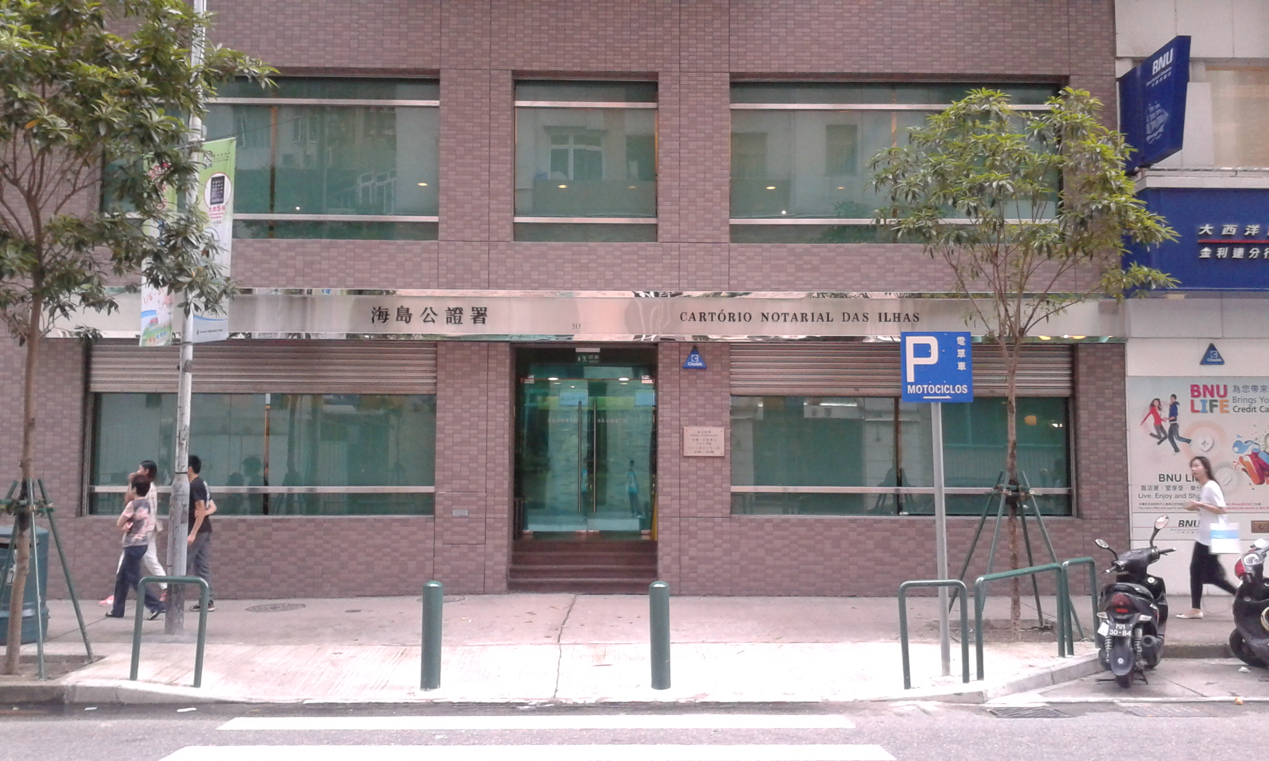 Island Notary Department